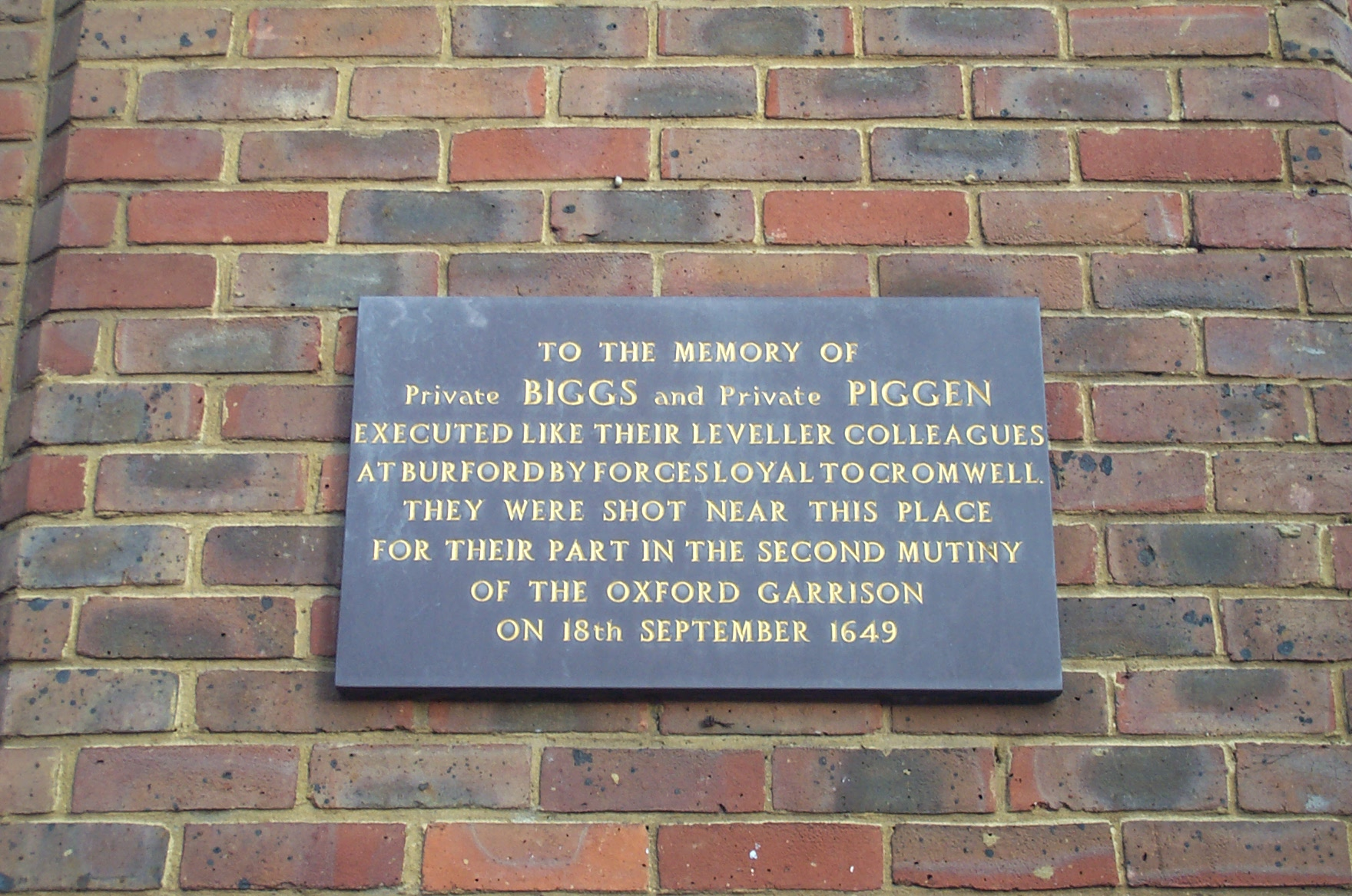 Commemoration plaque for Piggen and Biggs, two Levellers in Gloucester Green, Oxford.